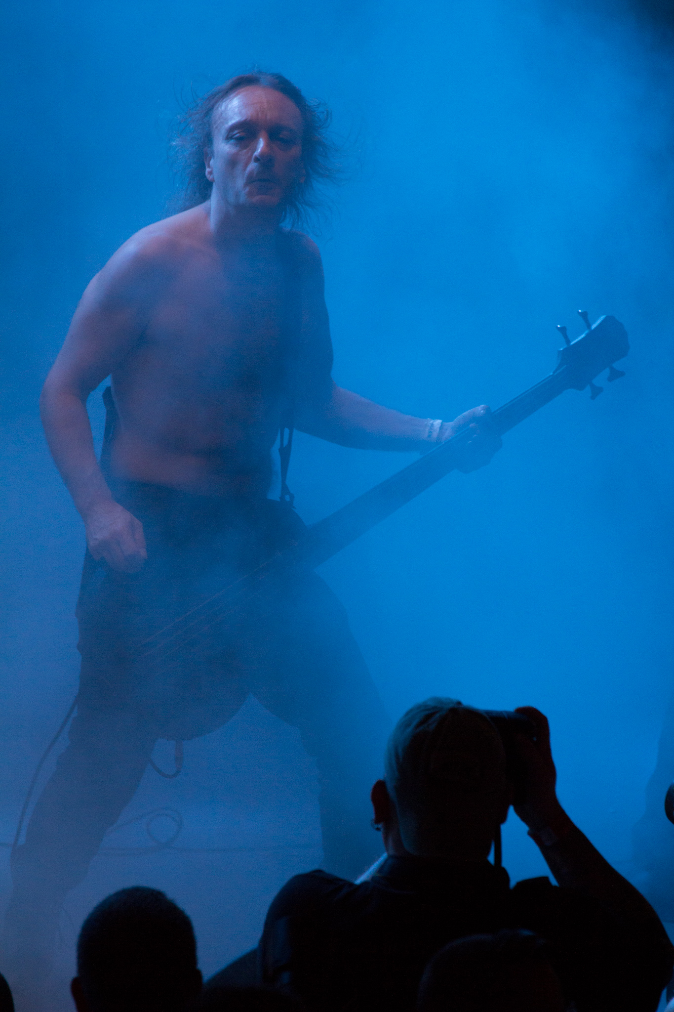 Mayhem playing on the "barge to Hell" metal cruise in 2012